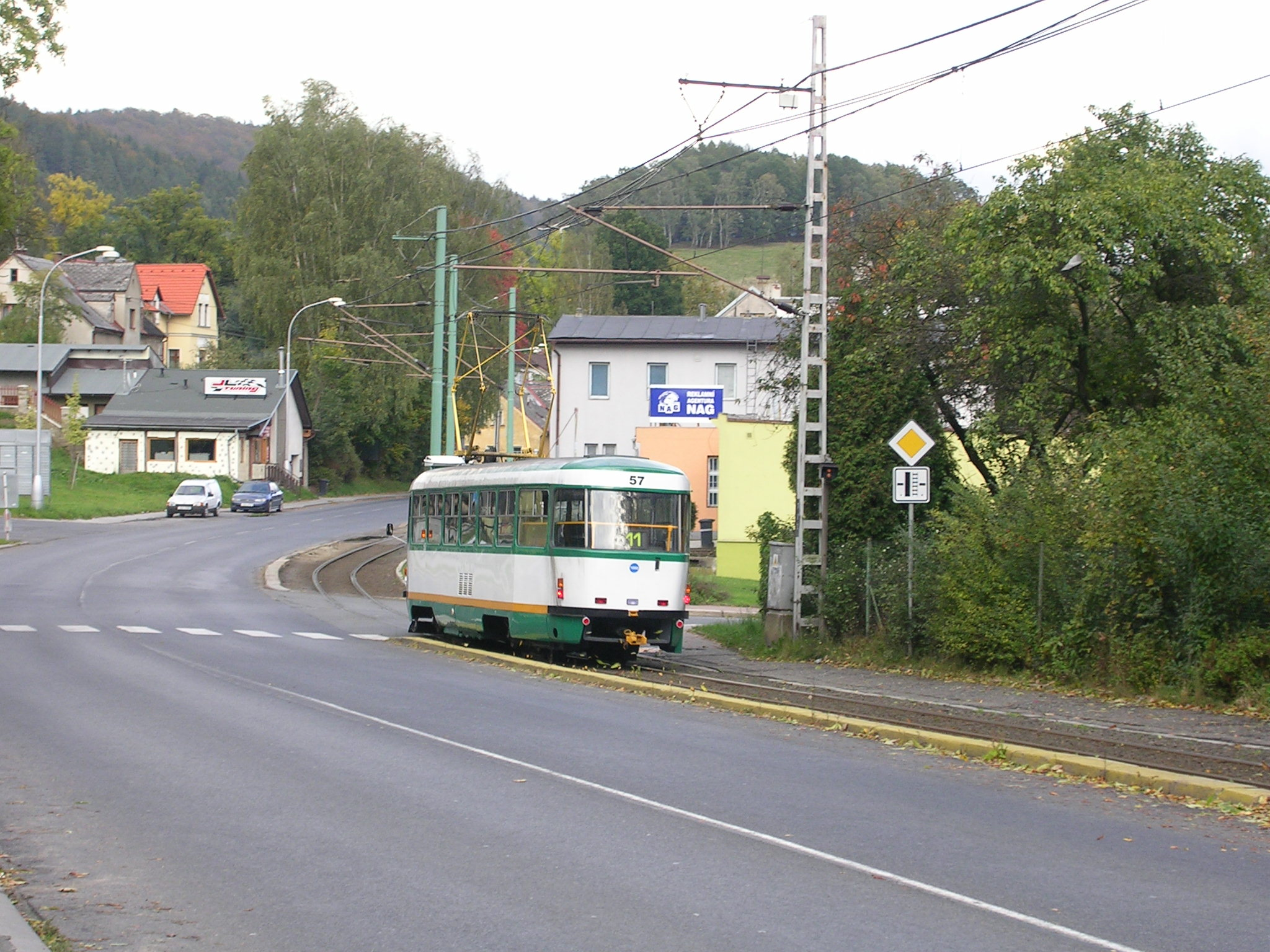 Tramway line between Liberec and Jablonec. Liberec, Vratislavice nad Nisou, Tanvaldská street.